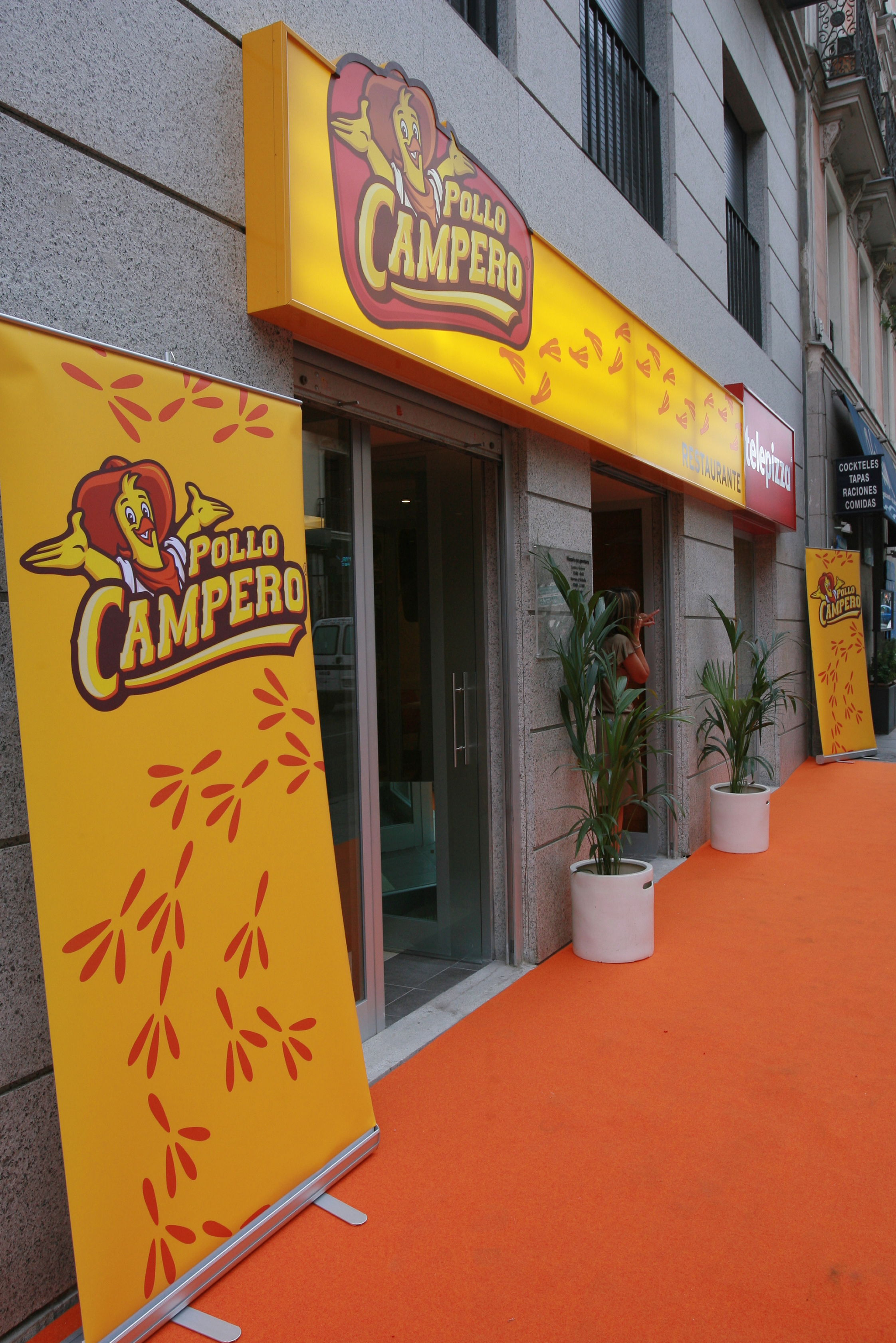 Pollo Campero, Calle Fuencarral 103, Madrid. It is the chain's first restaurant in Europe.